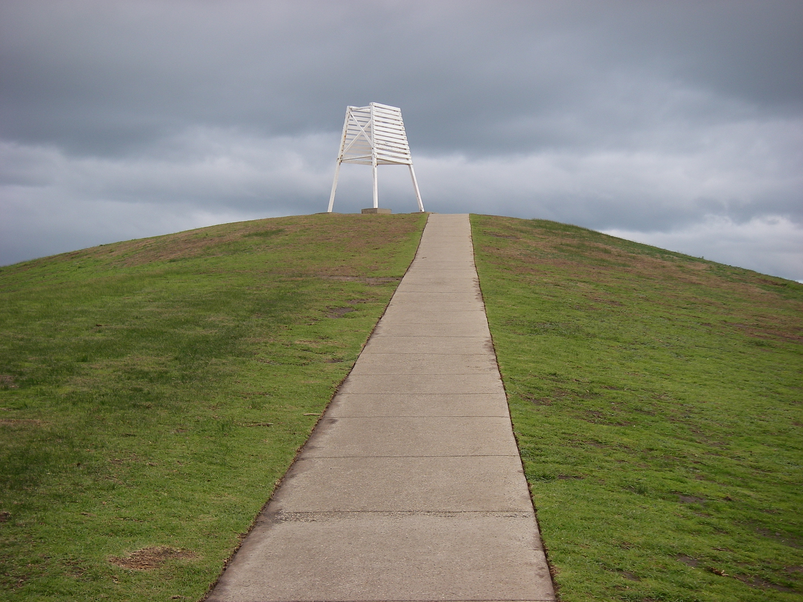 Point Ormond hill in Elwood, a suburb of Melbourne, Victoria, Australia.